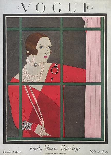 Vogue Magazine Cover (1 Oct 1924)